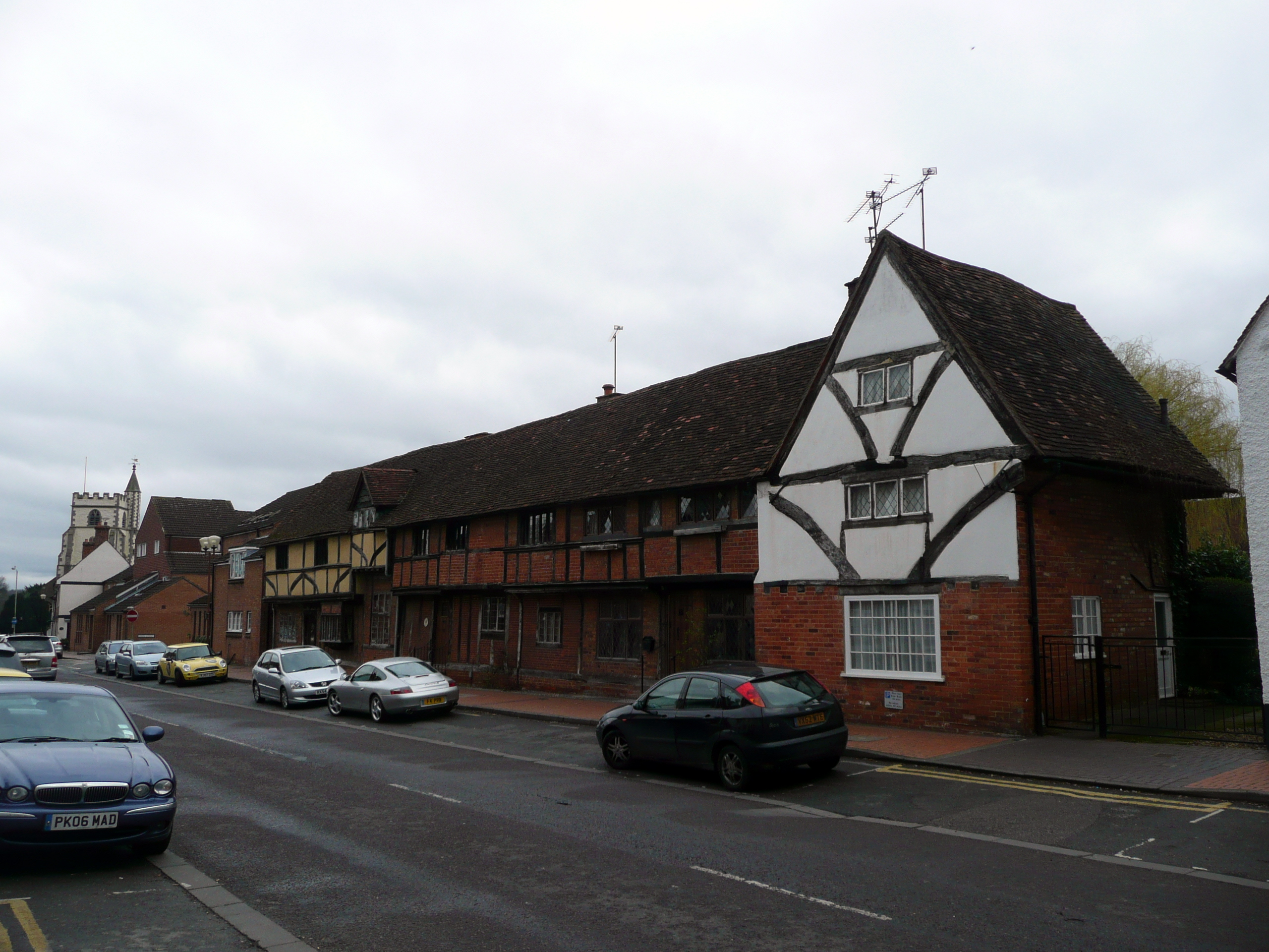 33-39 Rose Street, Wokingham. 33 is late 15th Century, 35-37 from the mid 15th Century and 39, a merchants house of c. 1500.